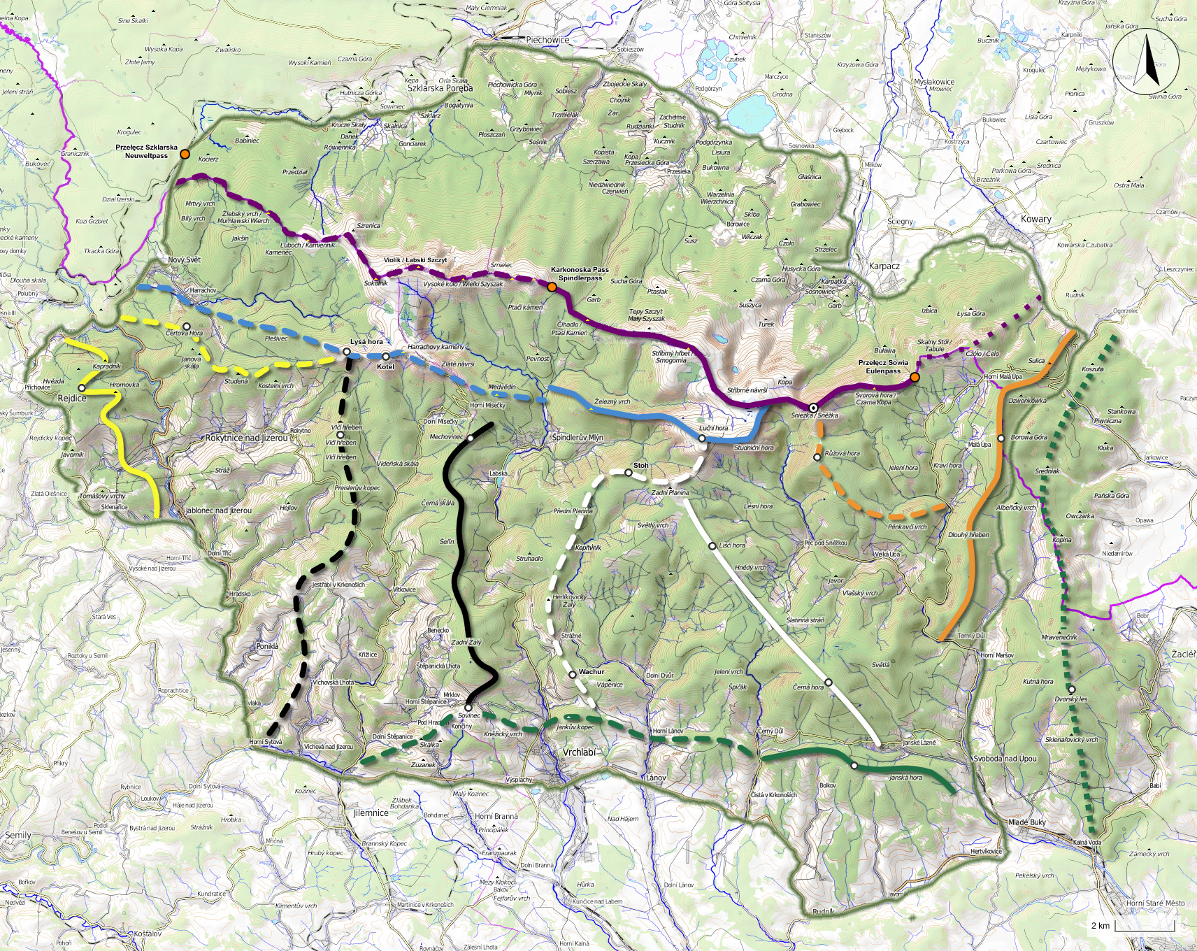 Geomorphological structure of the Giant Mountains Legend of the map data Colorcode of the image: see table below.